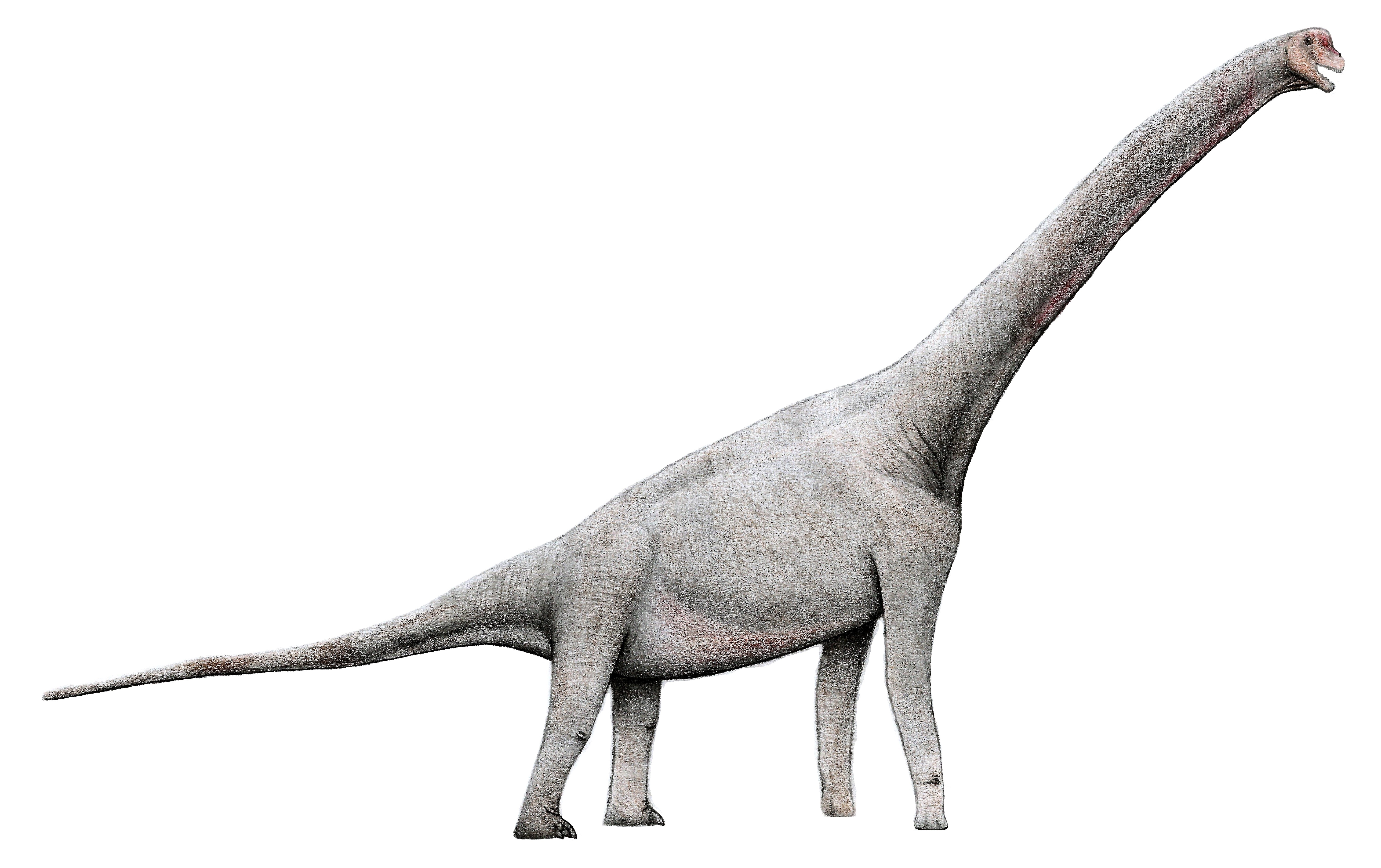 Recreation of Pelorosaurus brevis